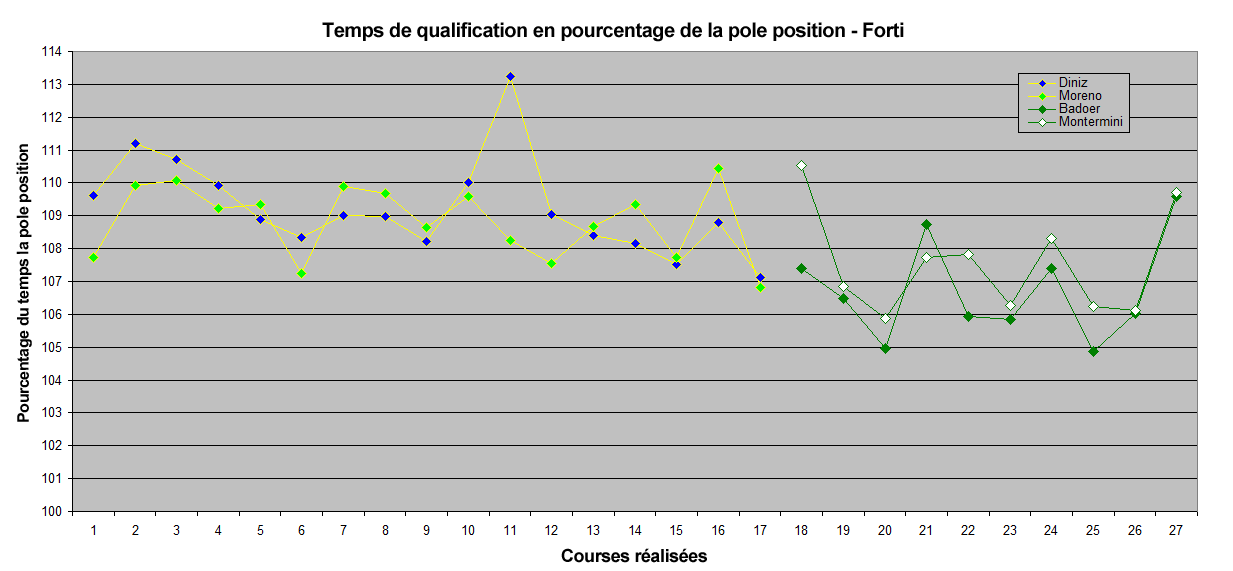 A graph showing the Forti team's qualifying performances in relation to pole position during its competition in Formula One.